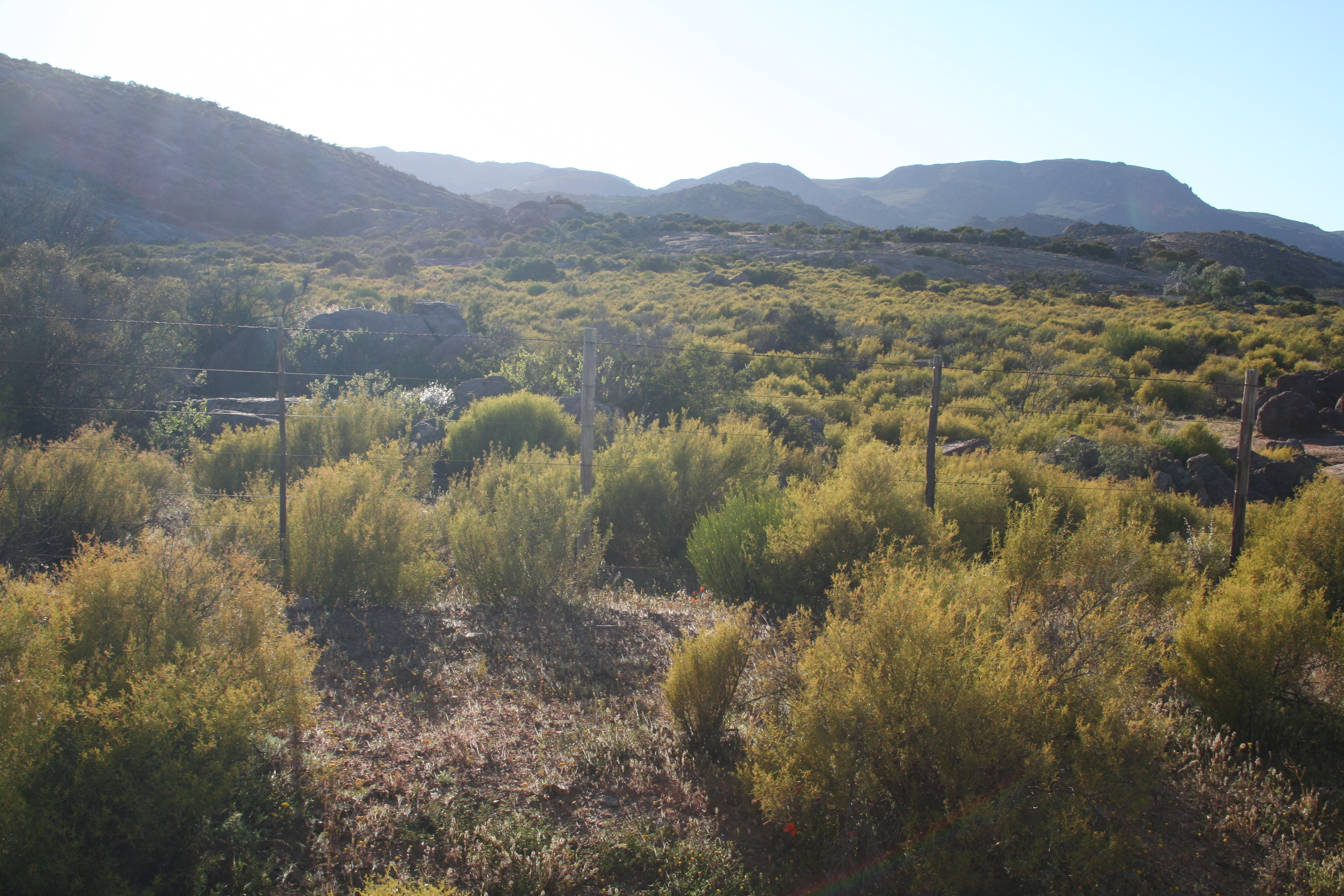 Galenia africana (Kraalbos) near Kamieskroon, South Africa